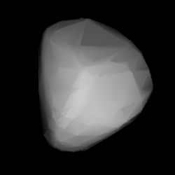 3D convex shape model of 1054 Forsytia, computed using light curve inversion techniques. J. Hanuš, J. Ďurech, M. Brož, B. D. Warner (June 2011). "A study of asteroid pole-latitude distribution based on an extended set of shape models derived by the lightcurve inversion method". Astronomy and Astrophysics 530: A134. ISSN 0004-6361. arXiv